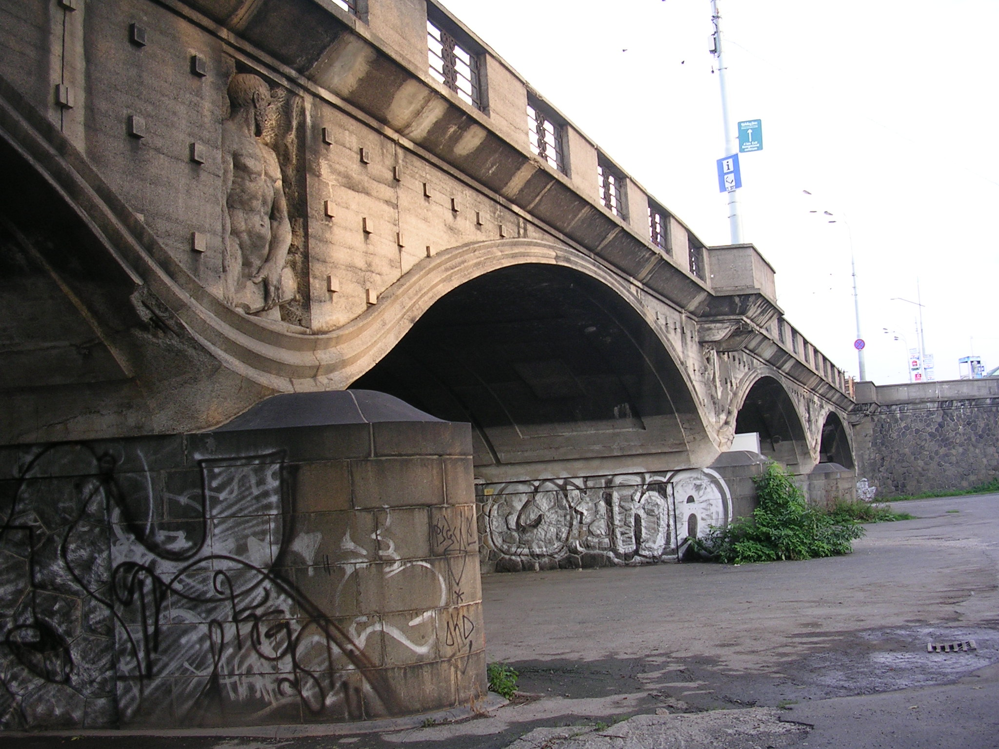 Prague, the Czech Republic. Hlávka's Bridge.